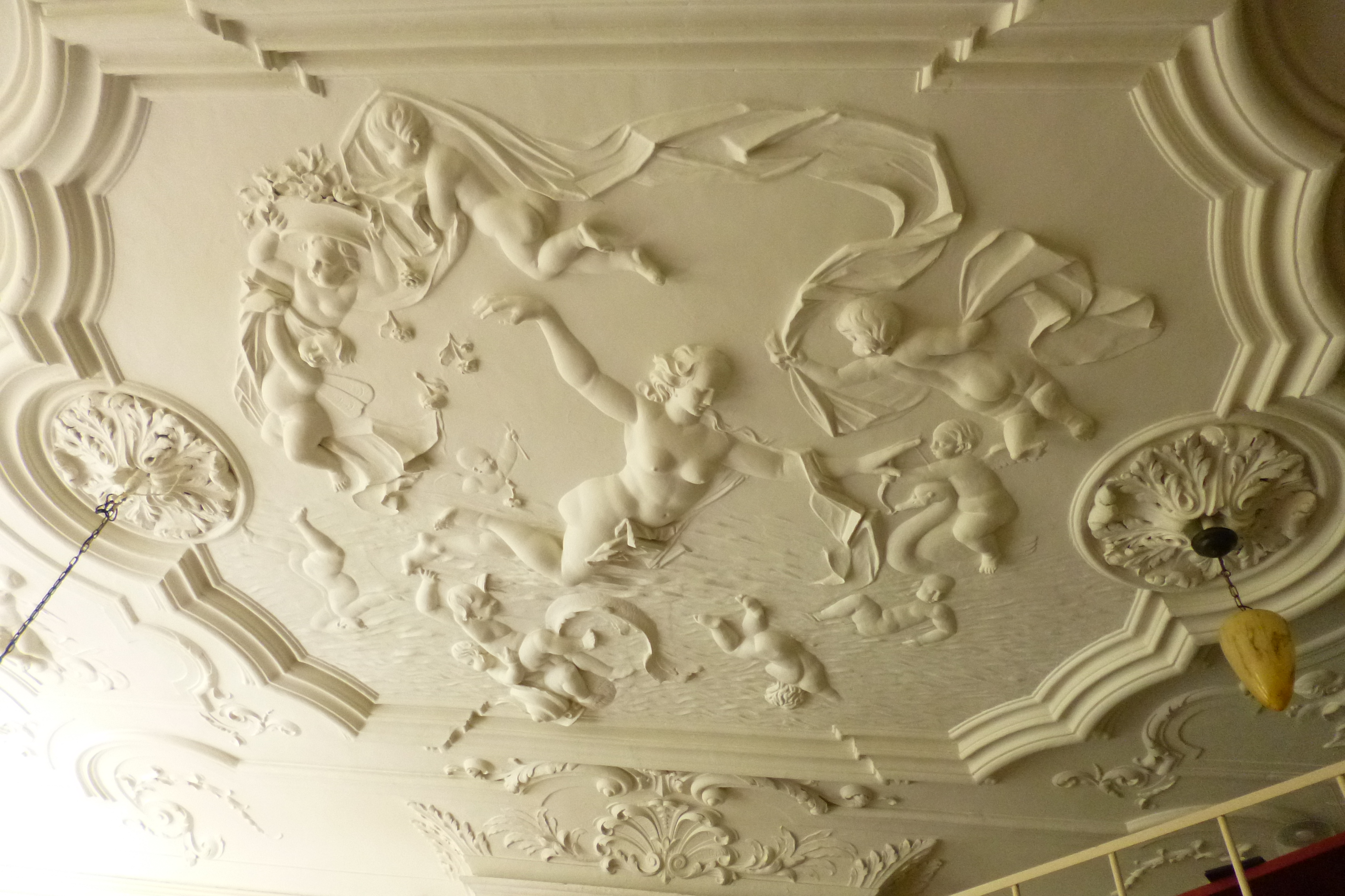 Nieuwe Herengracht 143 ceiling